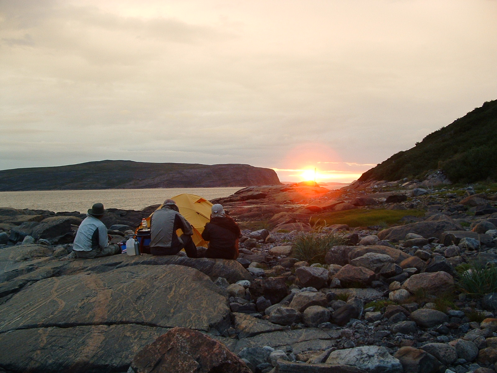 Sunset on George River, Quebec